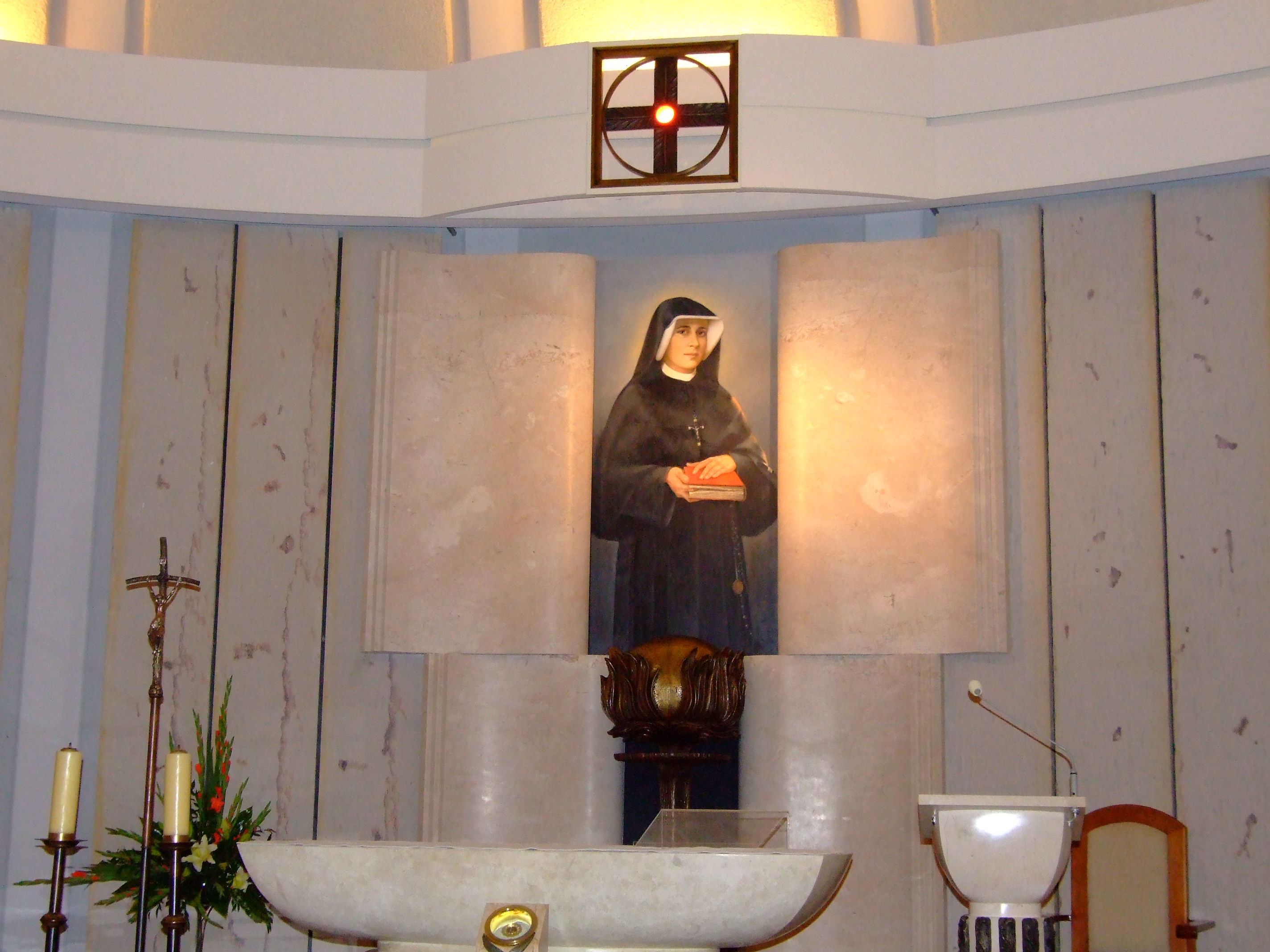 The Sanctuary of the Divine Mercy in Kraków-Łagiewniki (Poland)